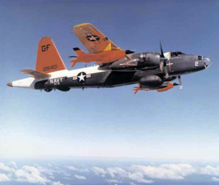 A U.S. Navy Lockheed DP-2E Neptune (BuNo 128401) from composite squadron VC-8 Redtails carries two BQM-34 Firebee drones toward the launching point at the Atlantic Fleet Weapons Range off Puerto Rico, in the 1960s.